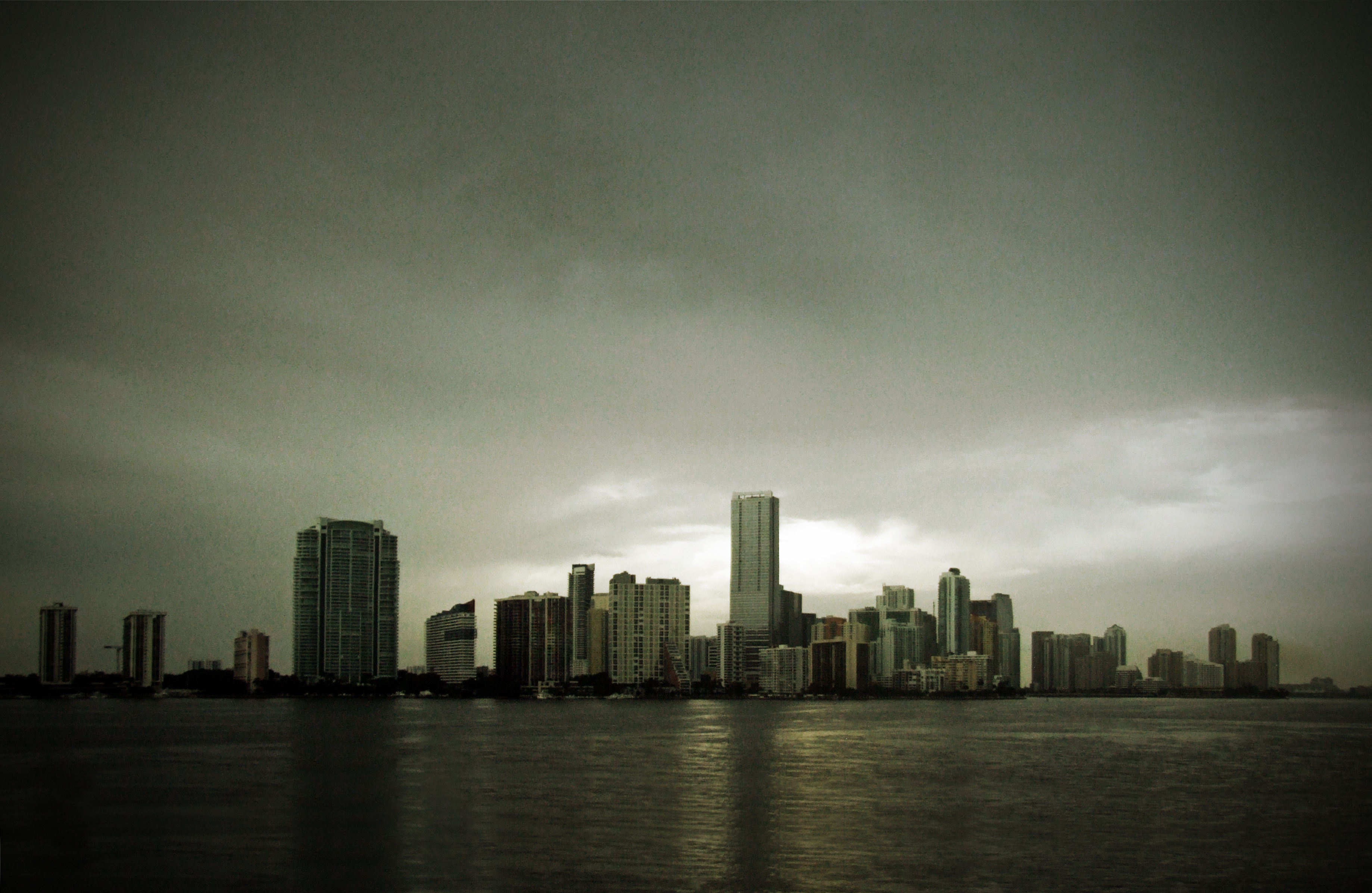 A picture of a dark and gloomy city (Miami, Florida)